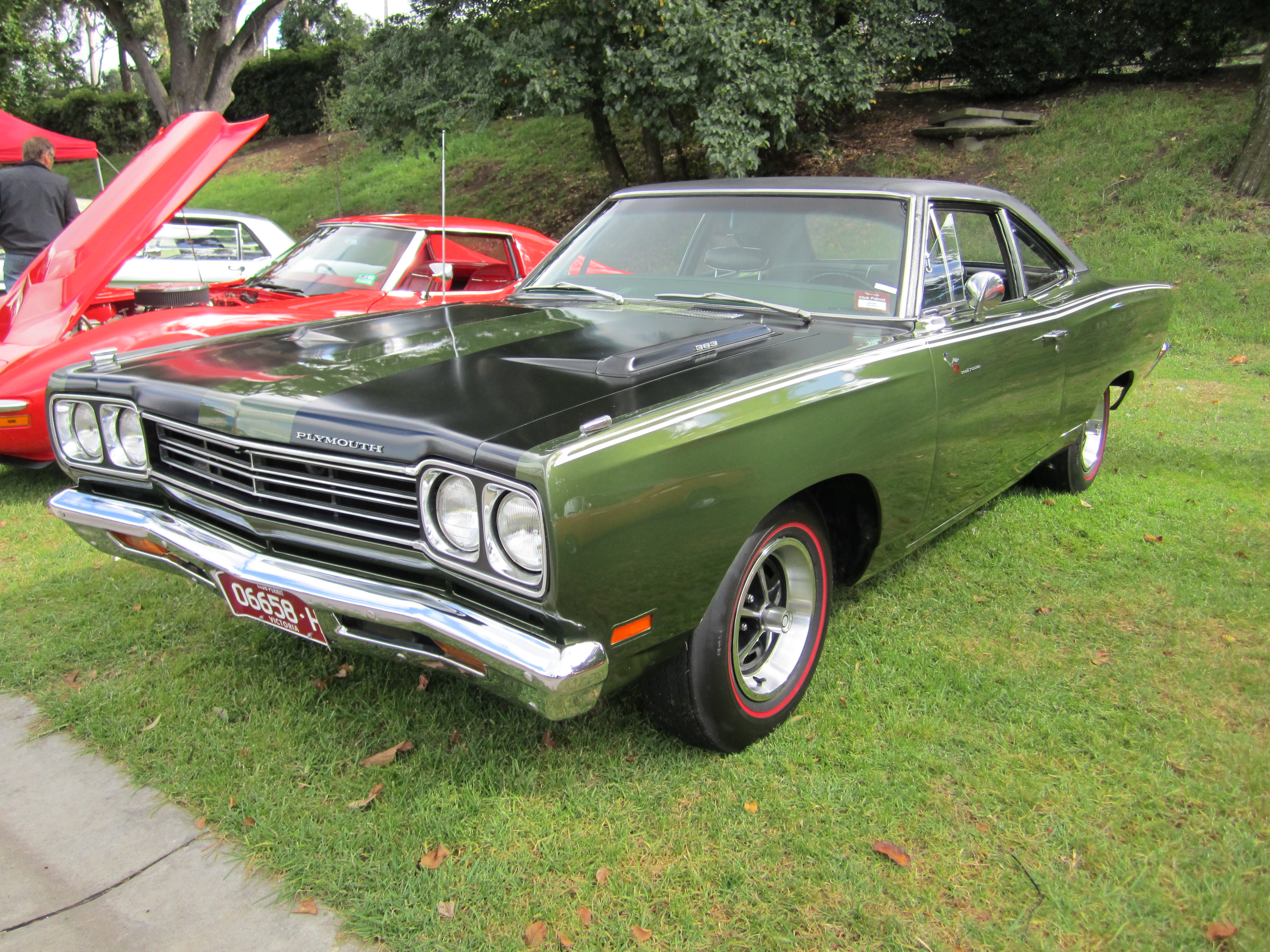 Roadrunners were made from 1968-80, based on the Mopar B body, complete with Beep Beep horn.aimed at the younger market; basic trim but big horsepower. Coupe, Hardtop or Convertible. Engnes; 383, 440 6 pack or 426 Hemi